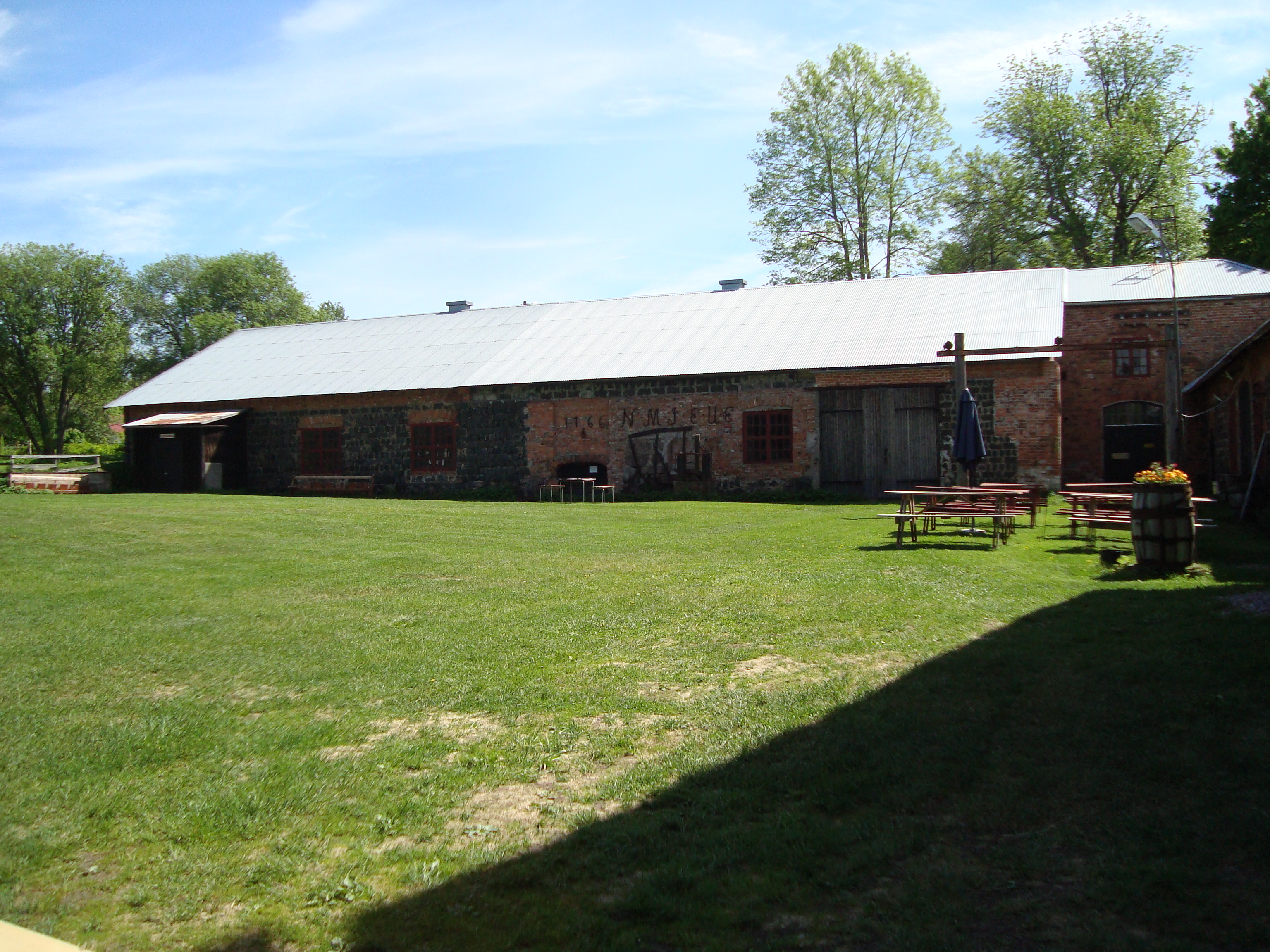 Old iron works of Gammelstilla, Hofors Municipality, Sweden